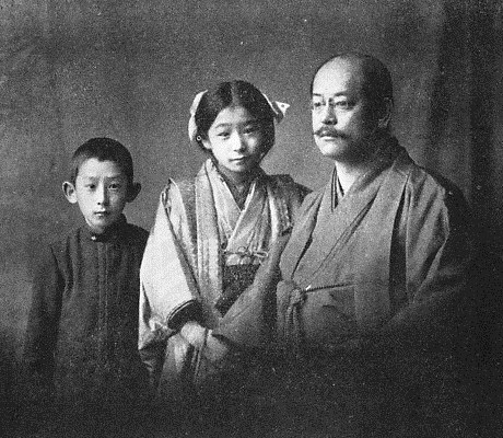 Yasutoshi Yanagisawa and his son and daughter